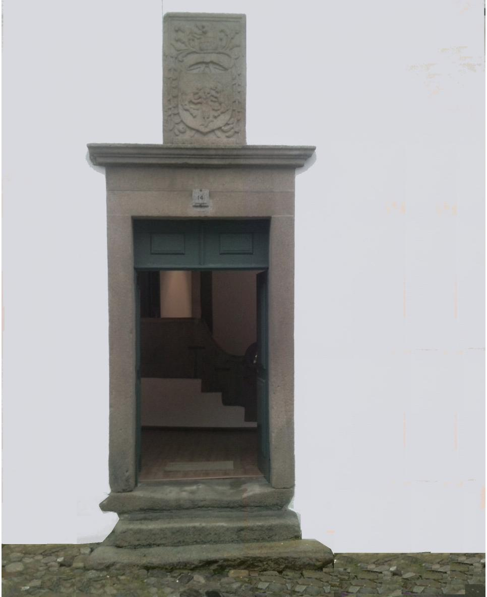 Main entrance of the Cardosos' Palace